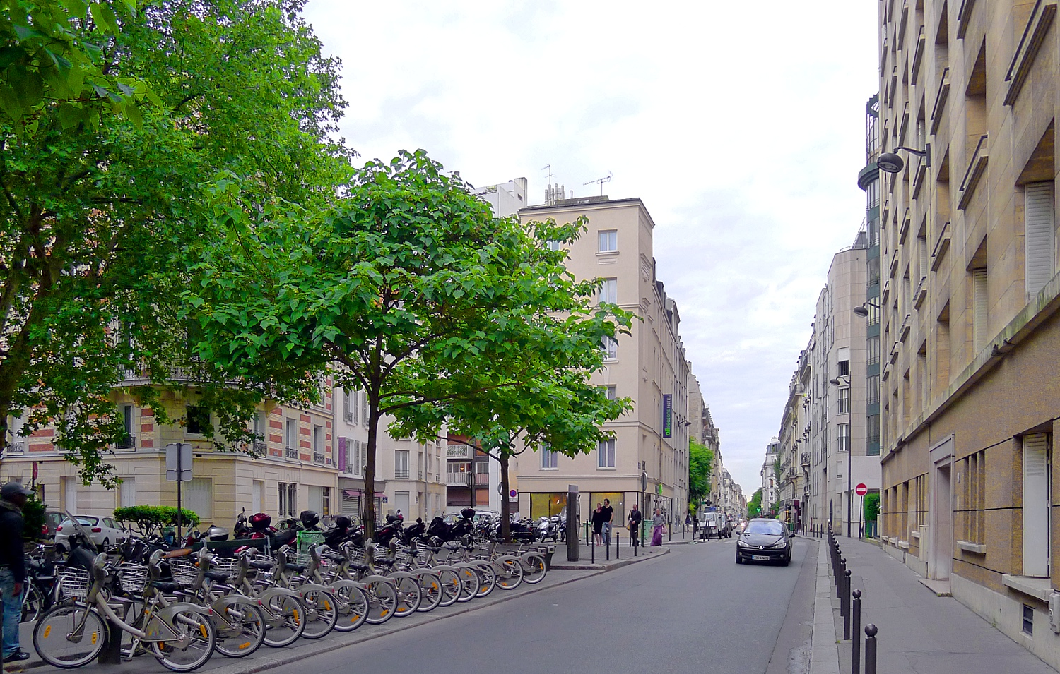 Plantes street - Paris